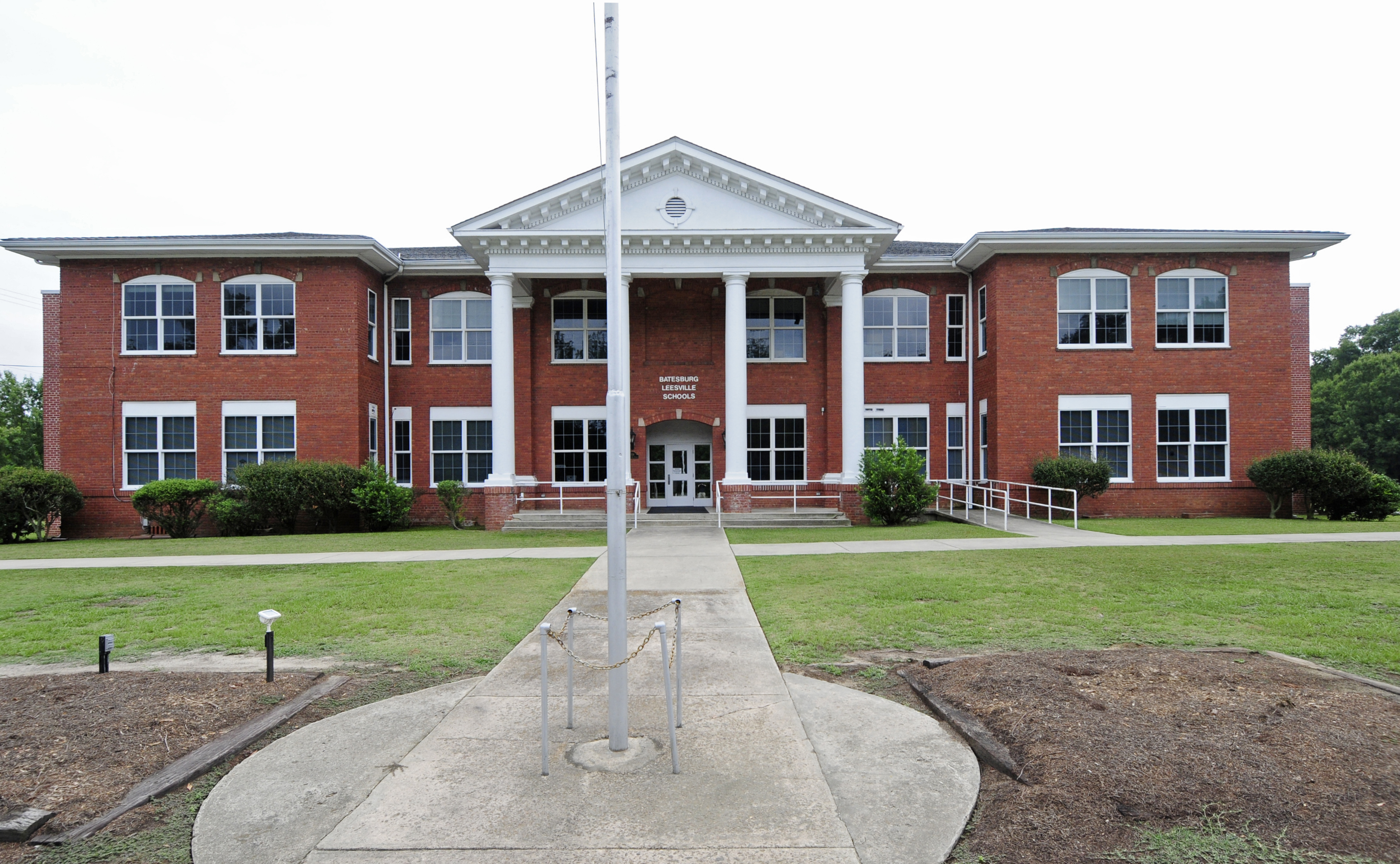 Old Batesburg Grade School, building currently serves as the offices of Lexington County School District Three.